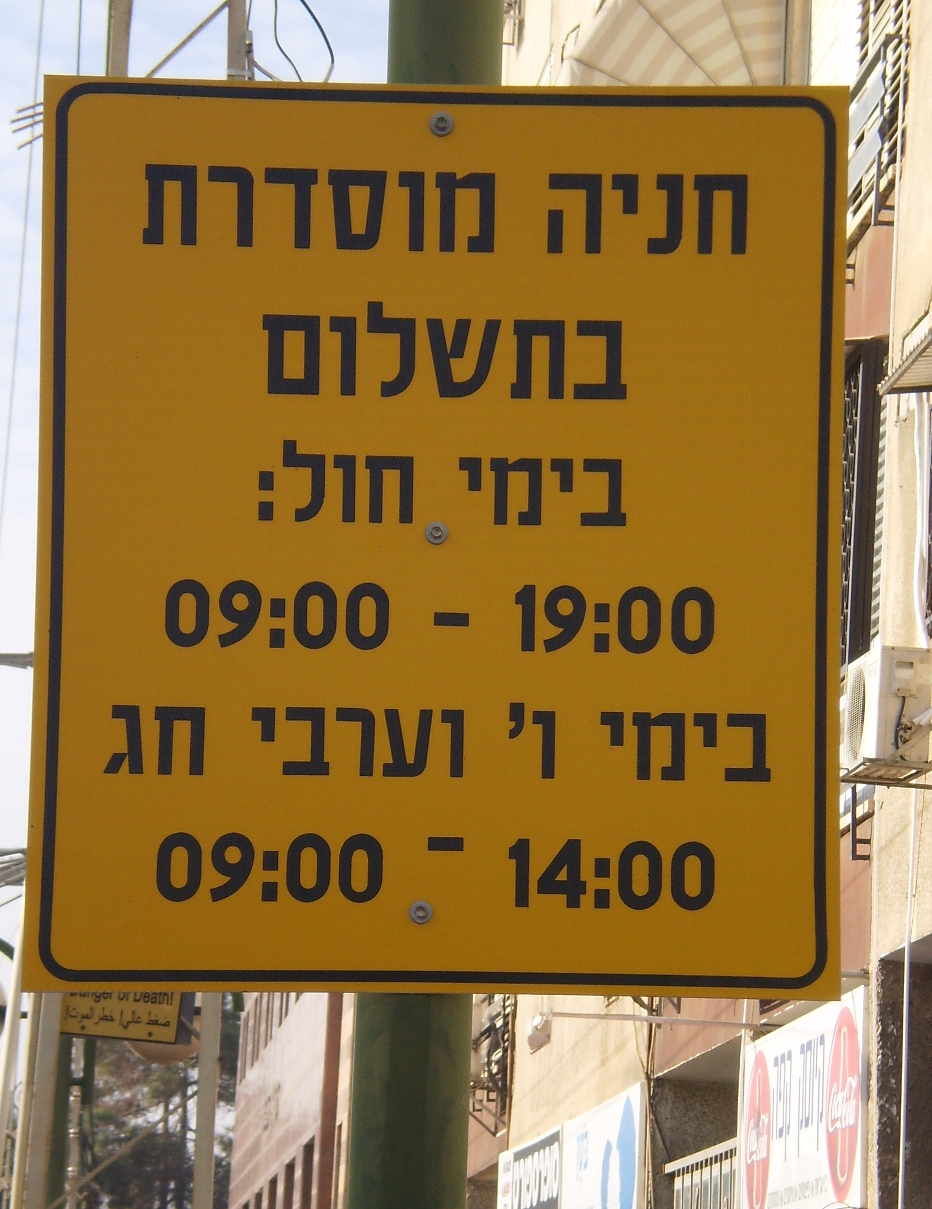 Paid parking sign in Ramat Hasharon